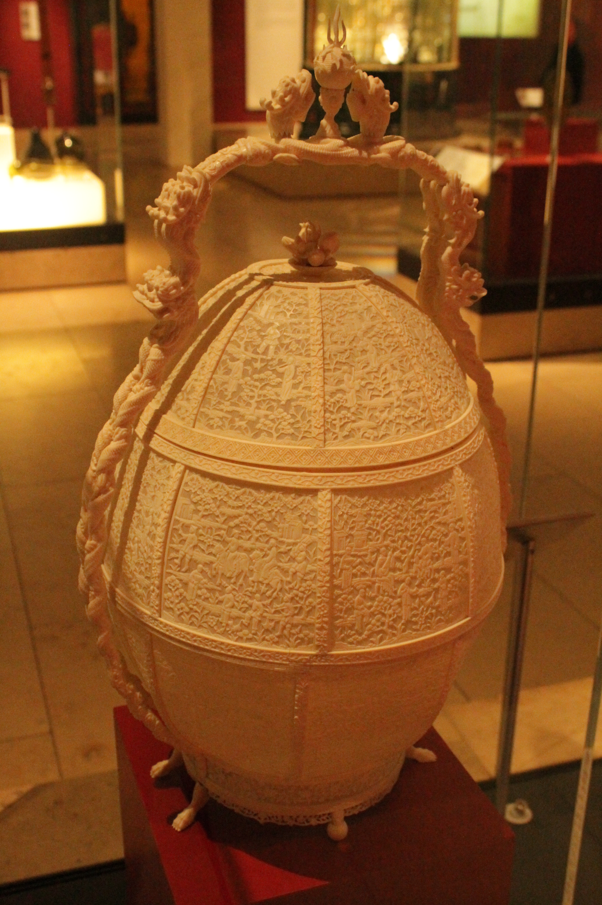 Large Chinese carved basket in ivory from the estate of William Fullerton Elphinstone, National Museum of Scotland